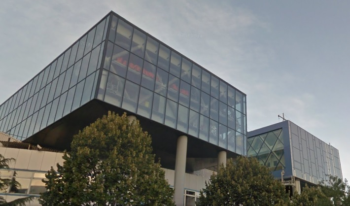 Laboratoire P4 du Cervi de Lyon.